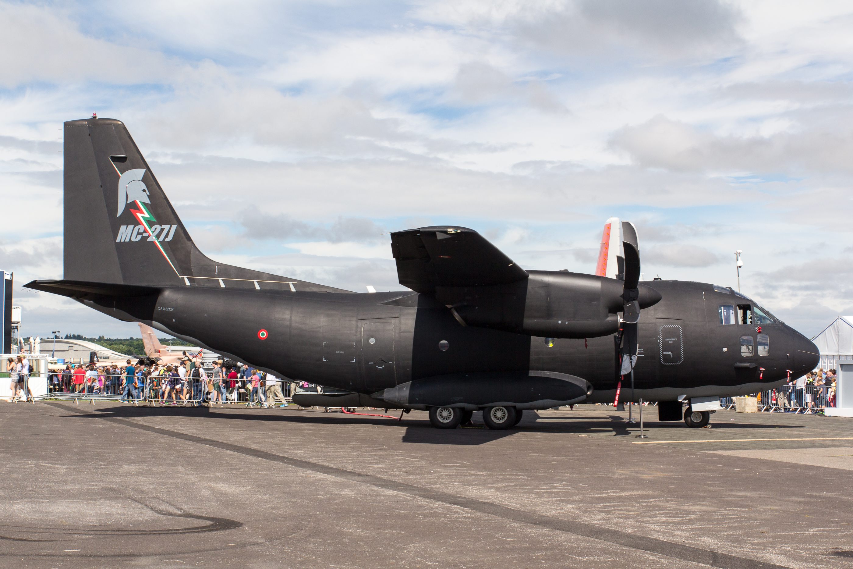 Aeronautica Militare Alenia C-27J Spartan CSX62127 at the 2016 Farnborough Airshow